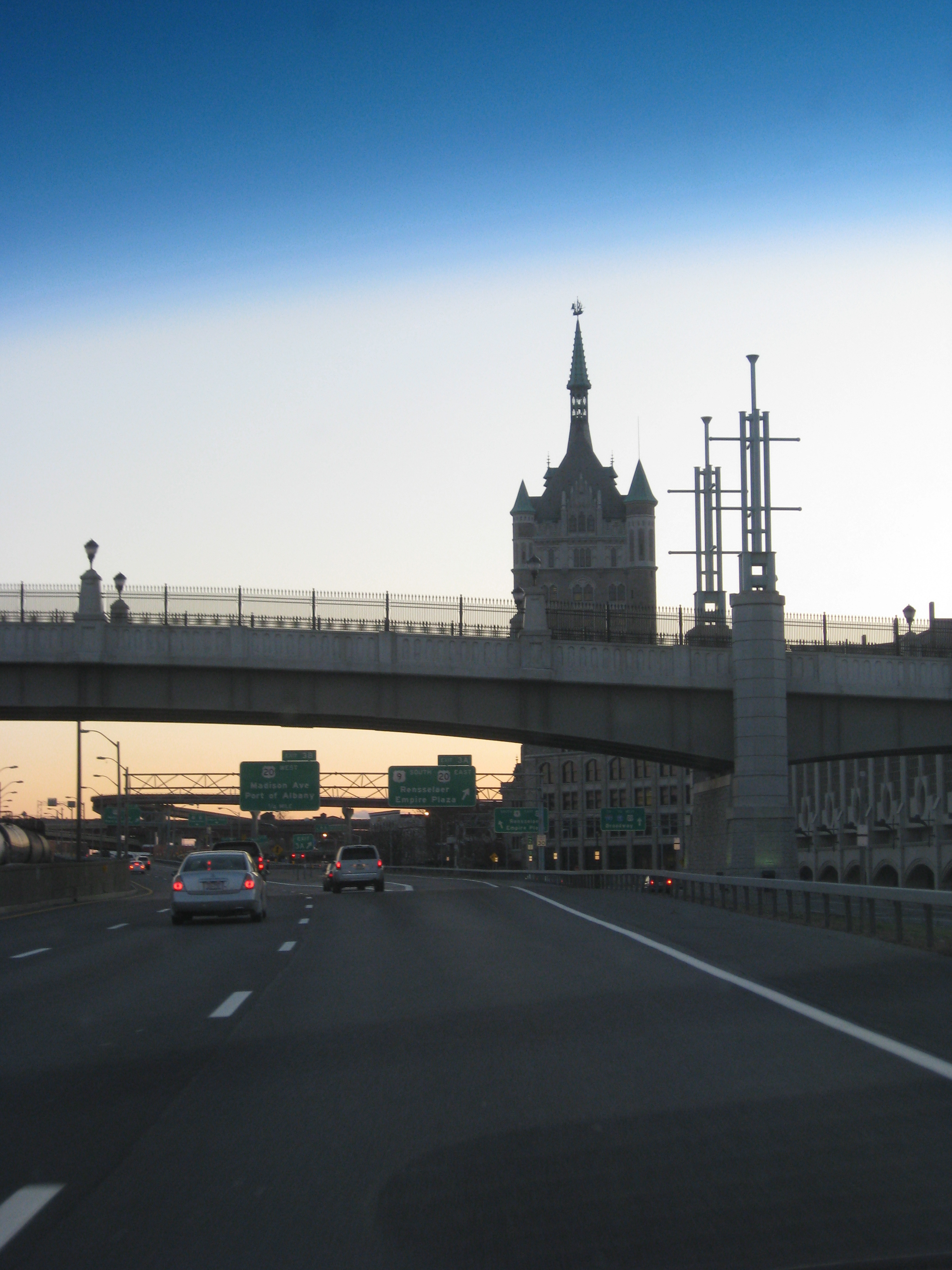 View from South-bound I-787 approaching Downtown Albany, NY